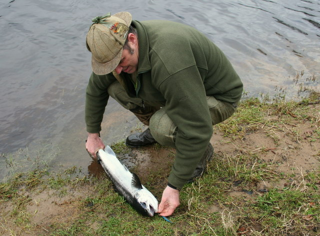 The Kinermoney Ghillie dealing with a kelt. Kneeling by the junction of the River Spey and the Lour Burn the Ghillie, Jock Royan removes a bait from a kelt (a fish which has spawned and is returning to the sea) prior to releasing the kelt unharmed to the river. This fish had earlier been stripped of her eggs and tagged. See 1220926.